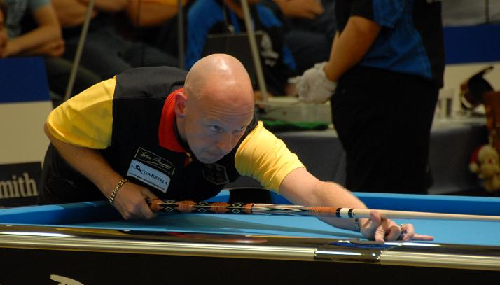 German pool player Ralf Souquet at the European Pool Championship 2008 in Willingen, Germany.